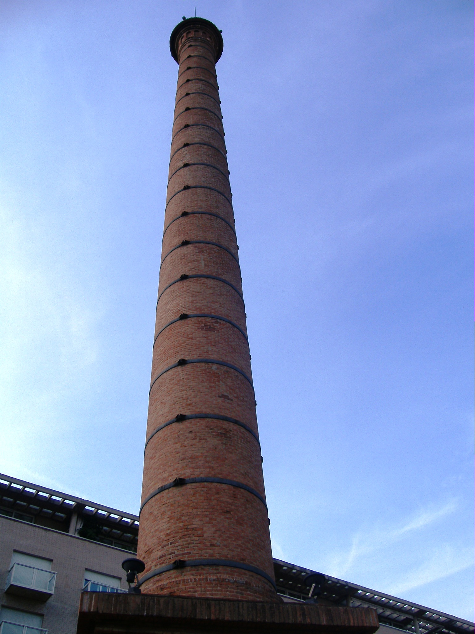 Chimney of the old factory "Ca'n Folch" in Barcelona. Catalunya.